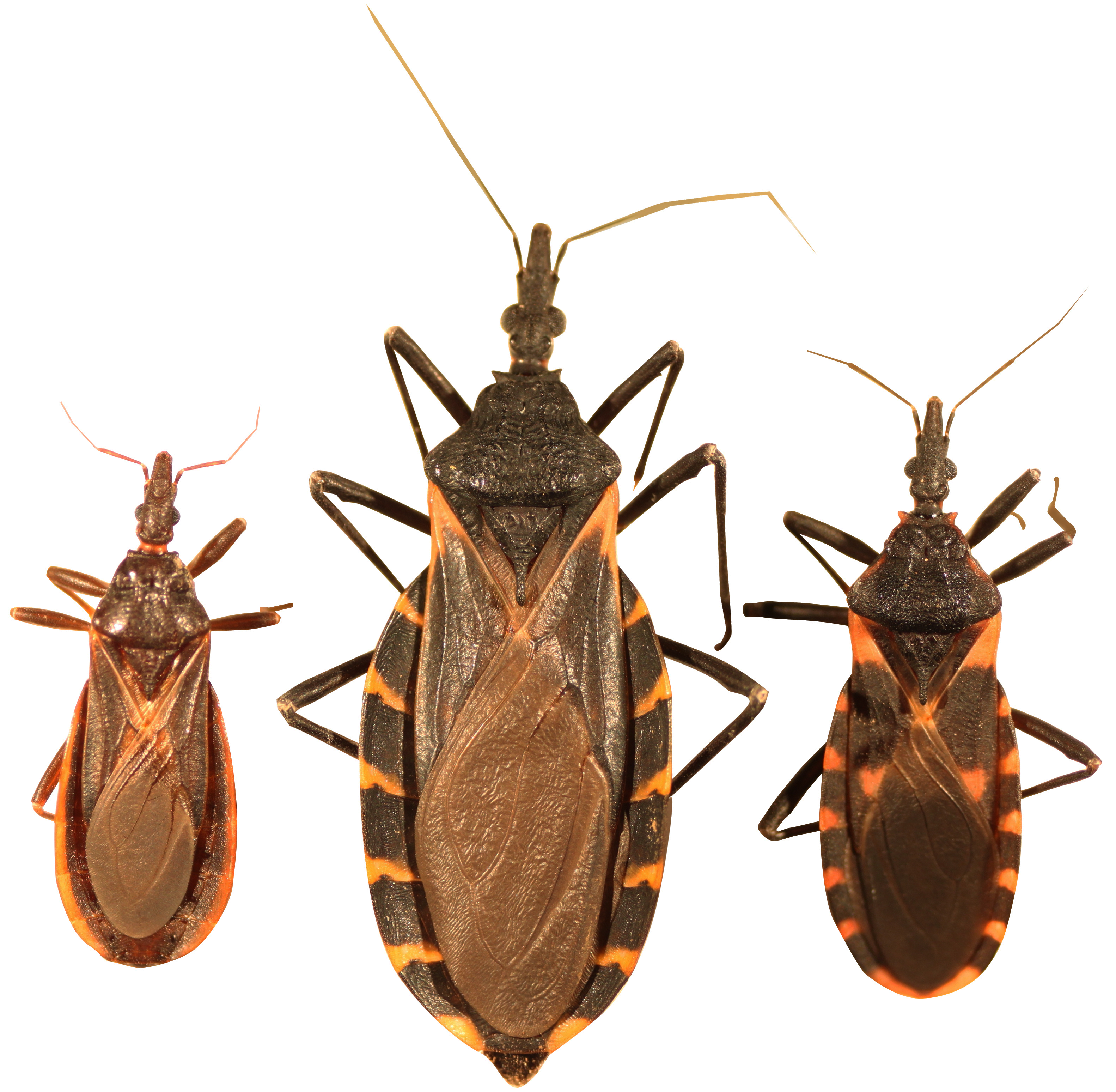 (Left to right) Triatoma protracta, the most common species in the western U.S.; Triatoma gerstaeckeri, the most common species in Texas; Triatoma sanguisuga, the most common species in the eastern U.S. Scale bar represents 25mm or approximately 1 inch.